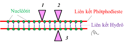 Nuclease's ability to act.